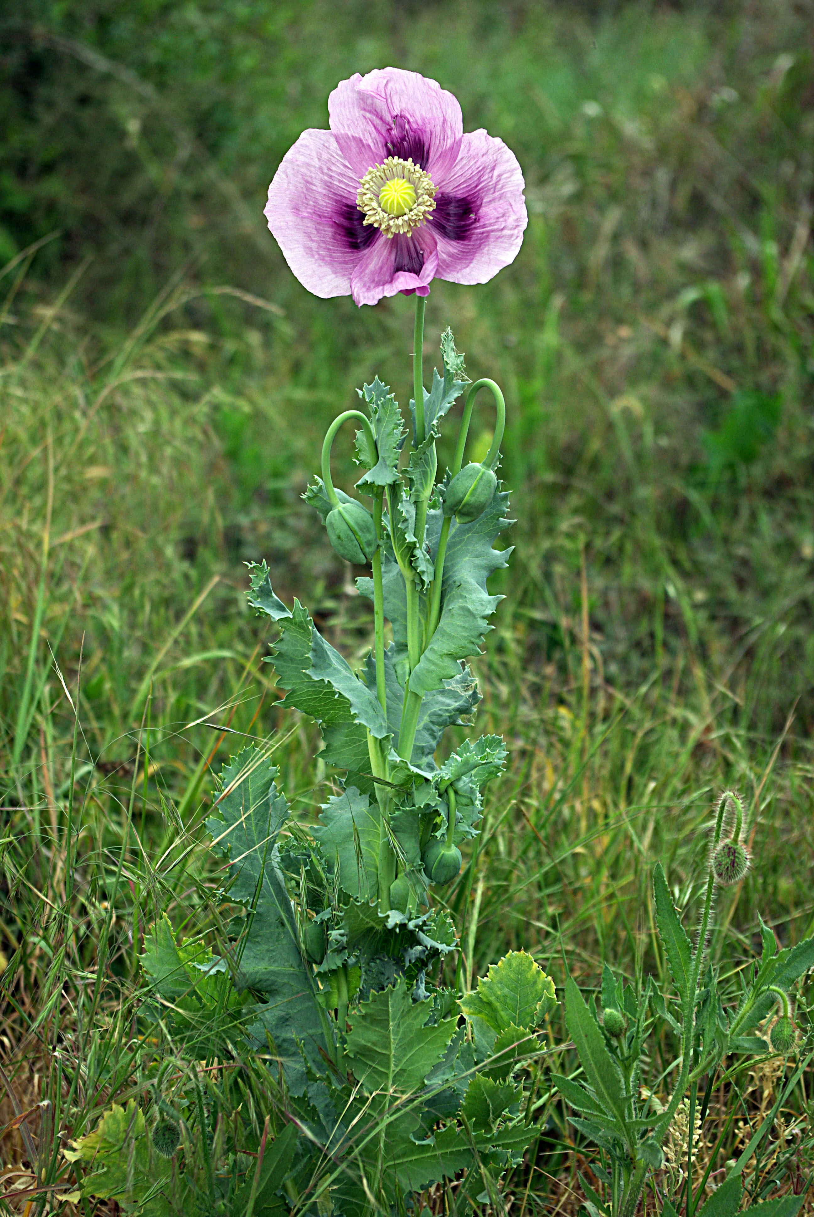 Opium poppy (Papaver somniferum), near Castromonte (Valladolid, Spain)